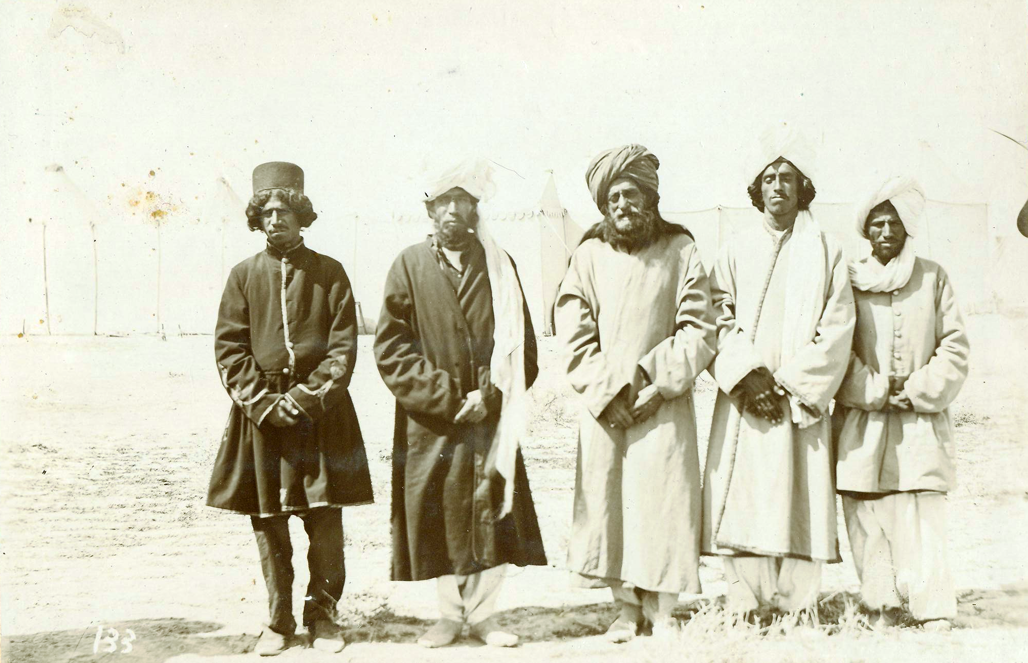 Iranian Baloch khans in Qajar era, c. 1902